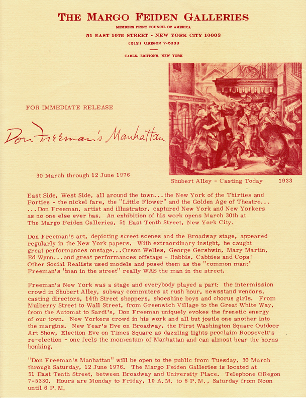 1976 press release for exhibition at the Margo Feiden Galleries Ltd., New York, featuring the one-man retrospective of the art of Don Freeman.